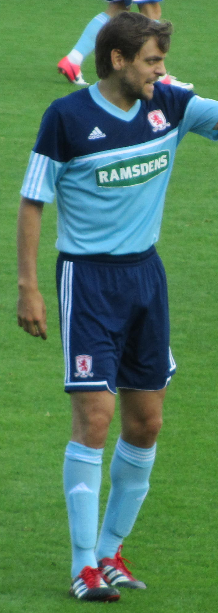 Jonathan Woodgate